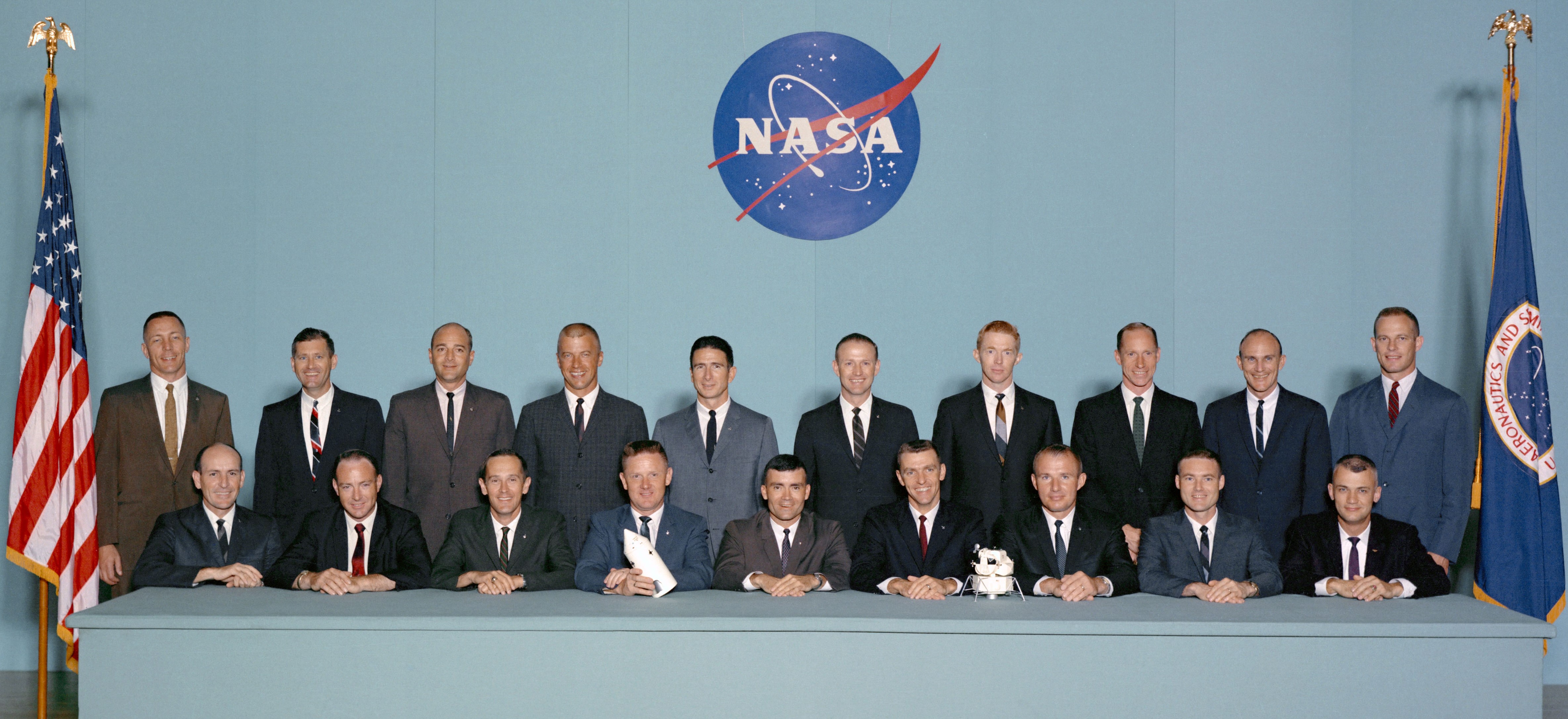 The fifth group of NASA astronauts, also known as the "Original 19". Back row, from left to right: John L. Swigert Jr., William R. Pogue, Ronald E. Evans Jr., Paul J. Weitz, James B. Irwin, Gerald P. Carr, Stuart A. Roosa, Alfred M. Worden, T. Kenneth Mattingly II and Jack R. Lousma. Front row, from left to right: Edward G. Givens Jr., Edgar D. Mitchell, Charles M. Duke Jr., Don L. Lind, Fred W. Haise Jr., Joseph H. Engle, Vance D. Brand, John S. Bull and Bruce McCandless II.